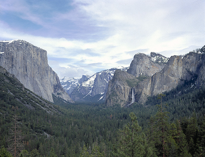 Yosemite Valley from Tunnel View, Yosemite National Park